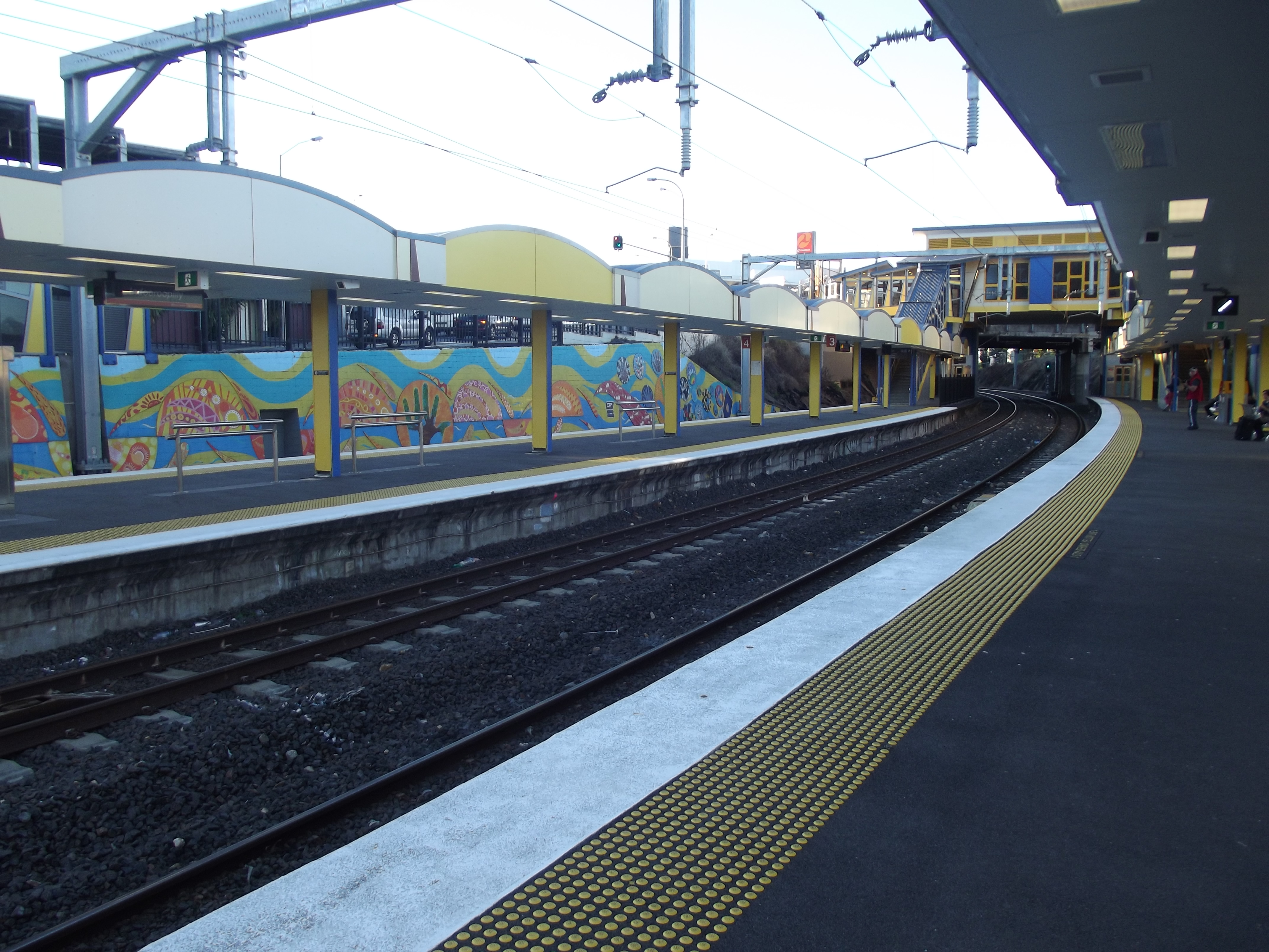 A photo of the Indooroopilly railway station operated by TransLink, located in Brisbane, Queensland.